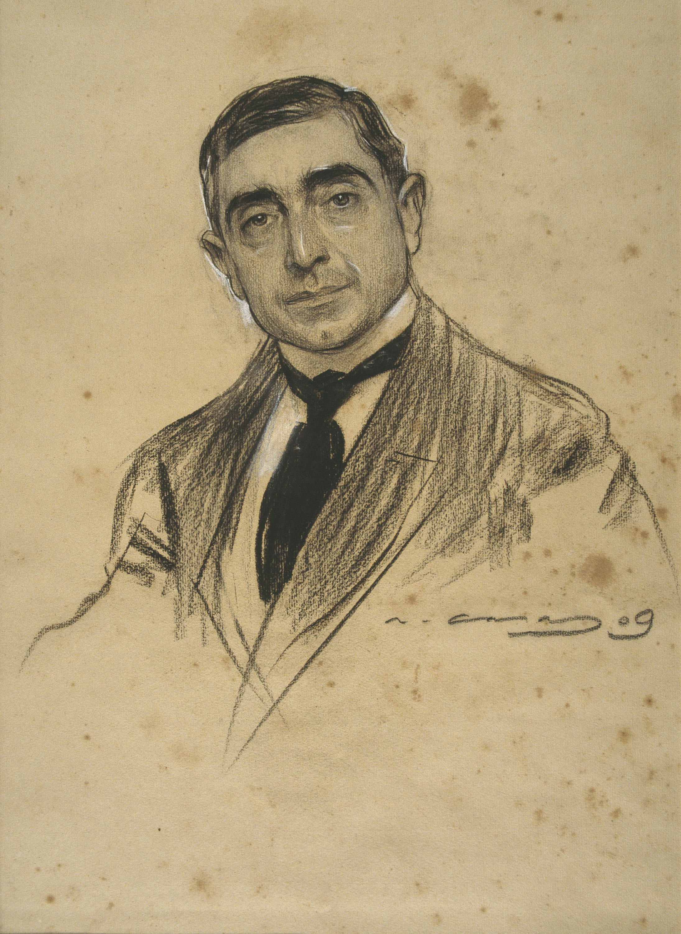 Portrait by Ramon Casas conserved at MNAC in Barcelona.